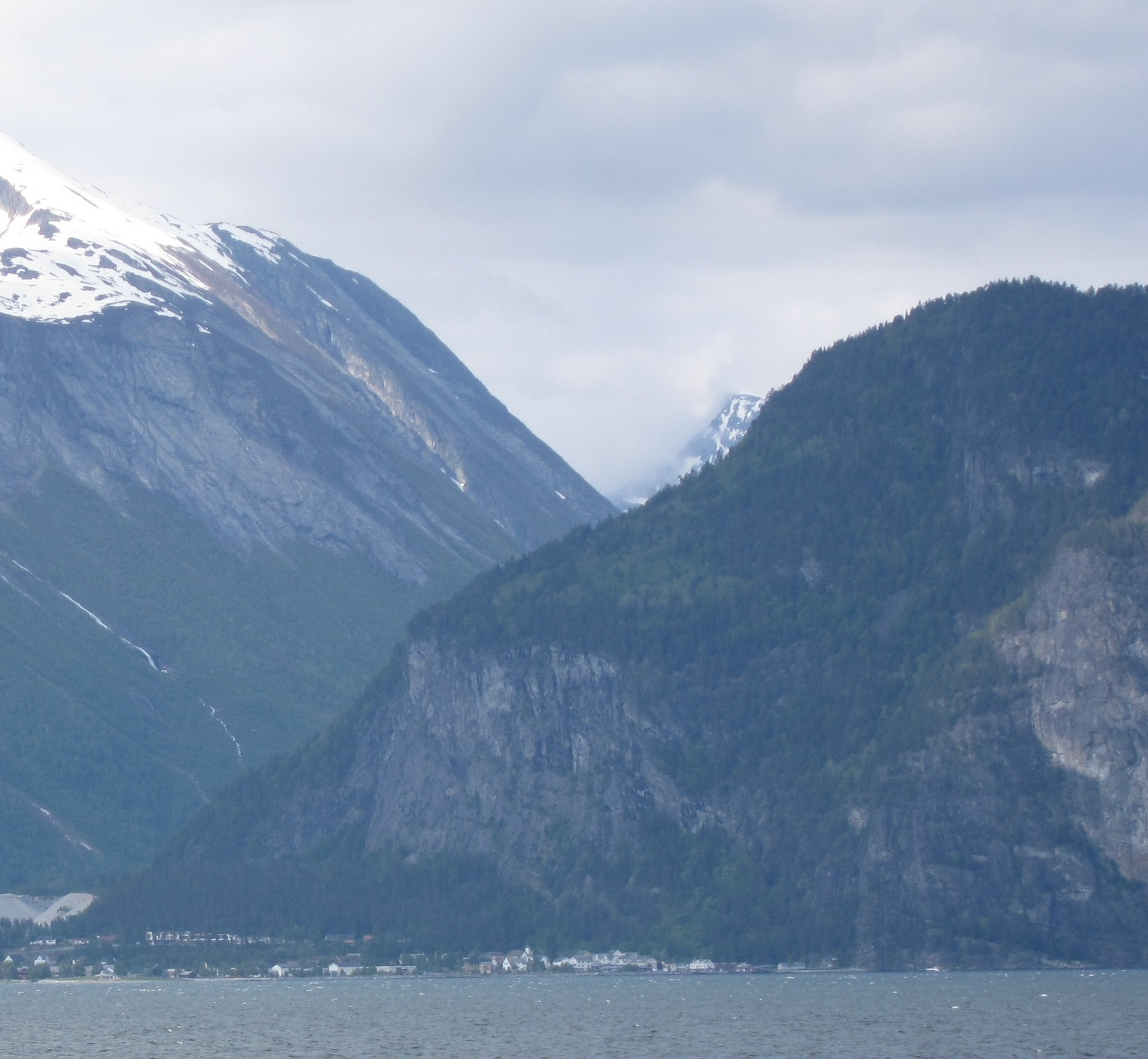 Sylte village in Valldal (Norddal municipality), Mt Syltefjellet right hand.